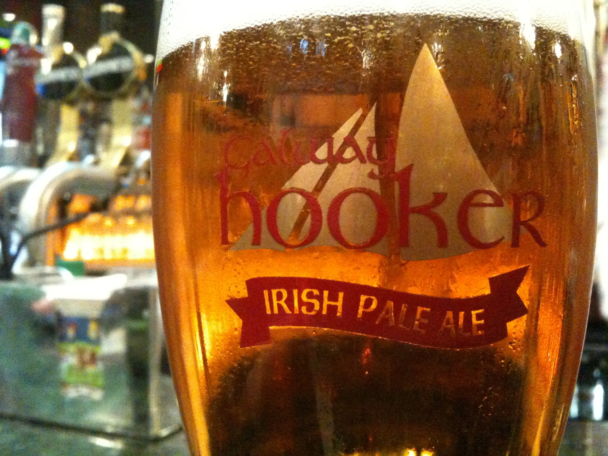 Photo of a pint of Galway Hooker Irish Pale Ale beer